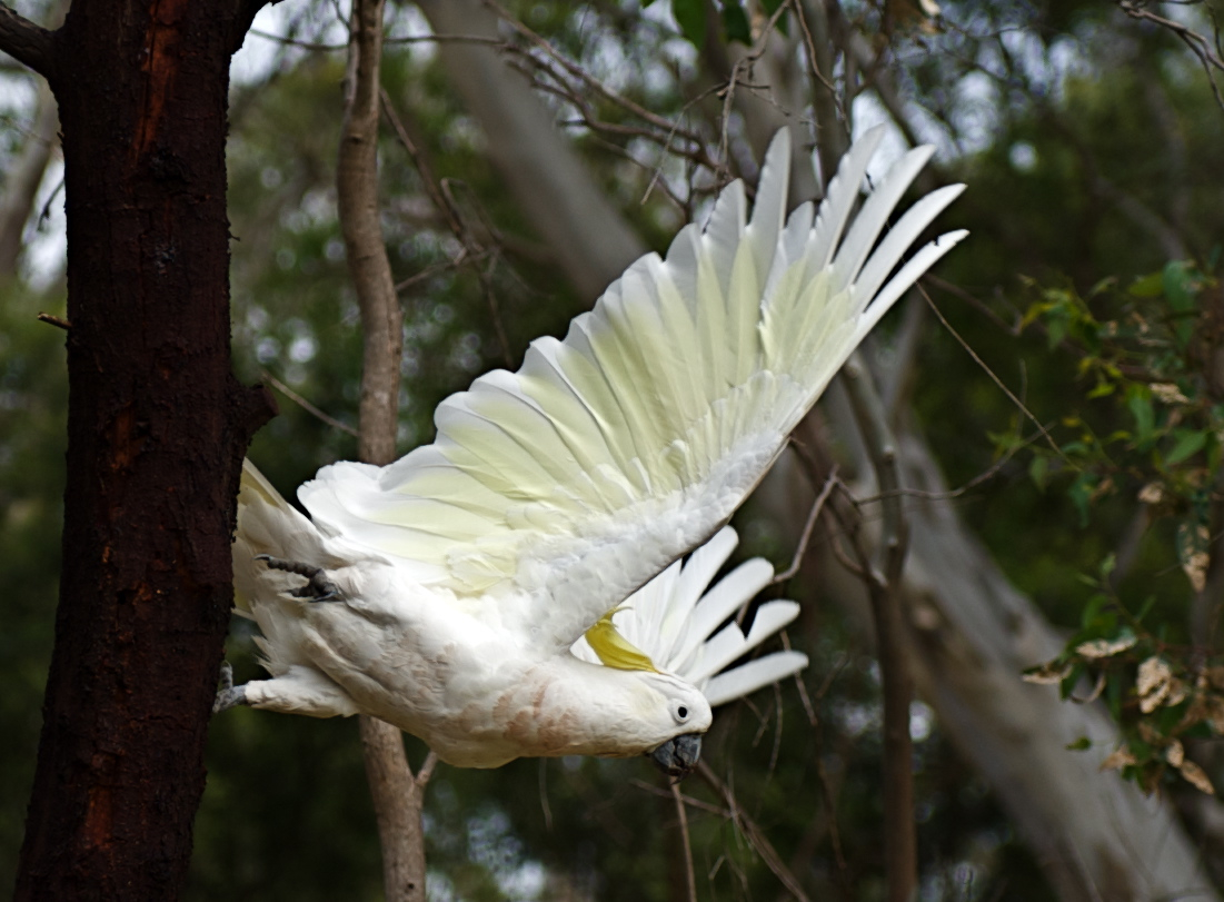 A 'Sulphur-crested Cockatoo in Melbourne, Australia.